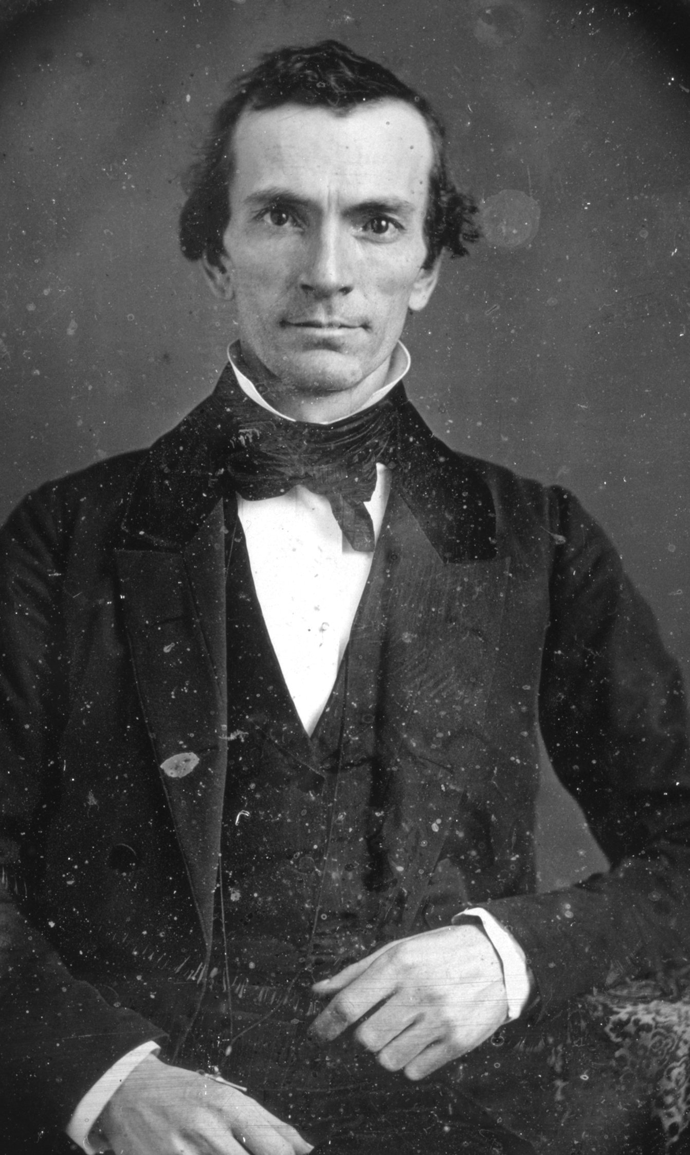 Recently found daguerreotype of Oliver Cowdery (3 October 1806 – 3 March 1850) in the Library of Congress, DAG no. 1363. For identification, see: Patrick A. Bishop, "An Original Daguerreotype of Oliver Cowdery Identified", BYU Studies, 45 (2) 2006, pp. 100-111.